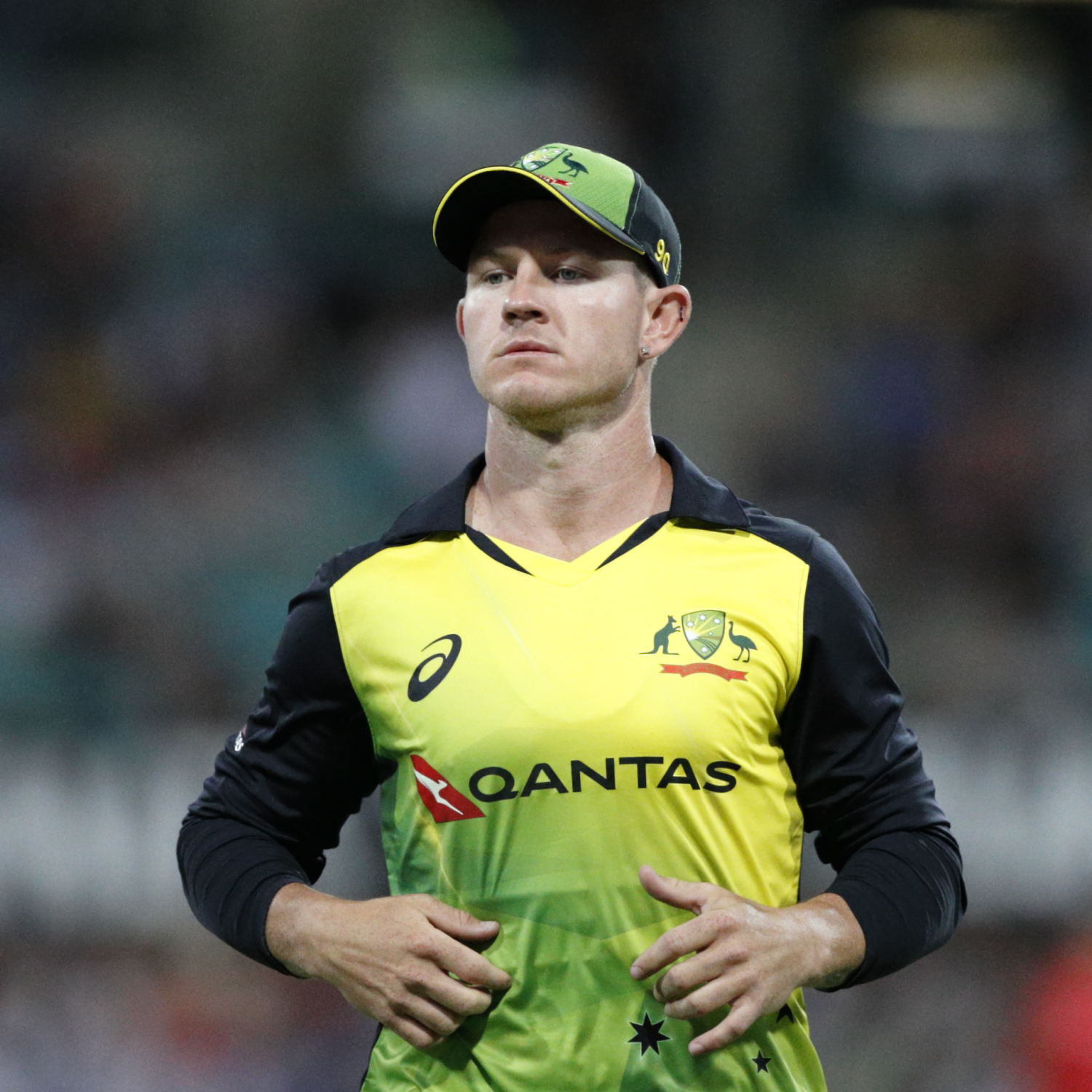 D'Arcy Short, Australia vs New Zealand T20